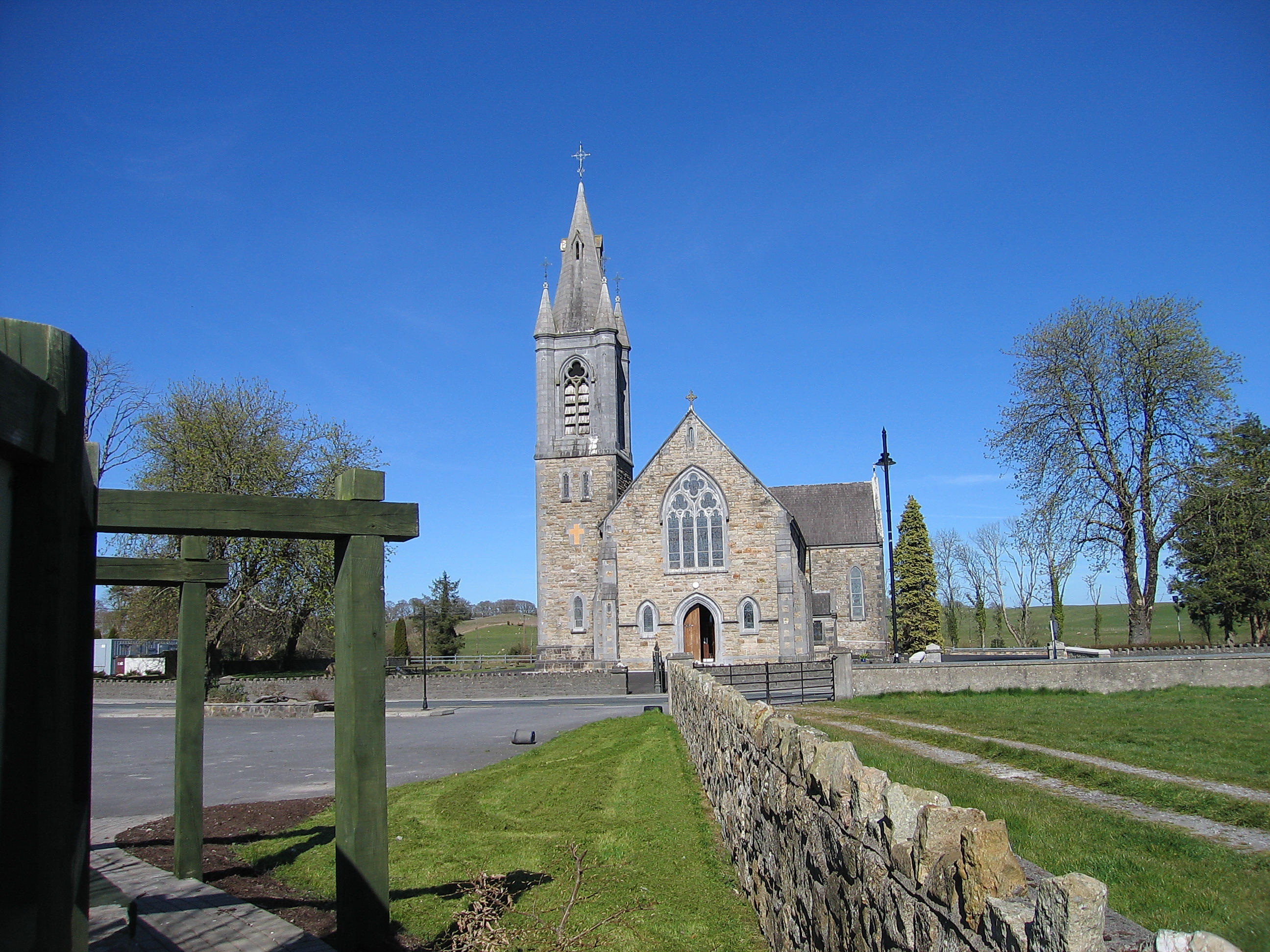 Ballynahown, County Westmeath.